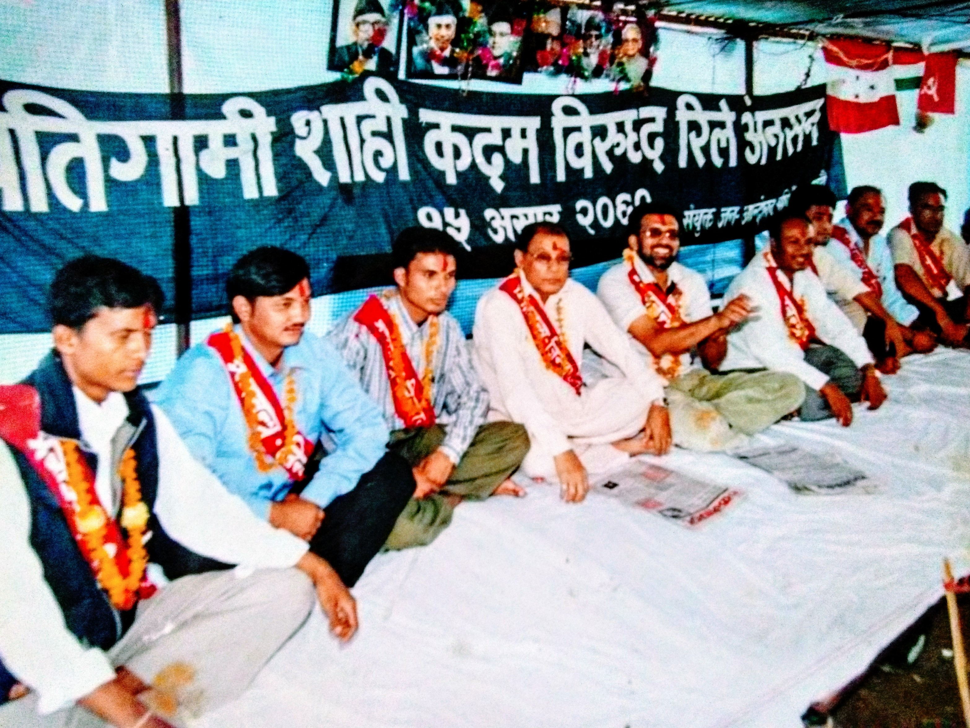 Bal Chandra Poudel In Jana Aandolan I